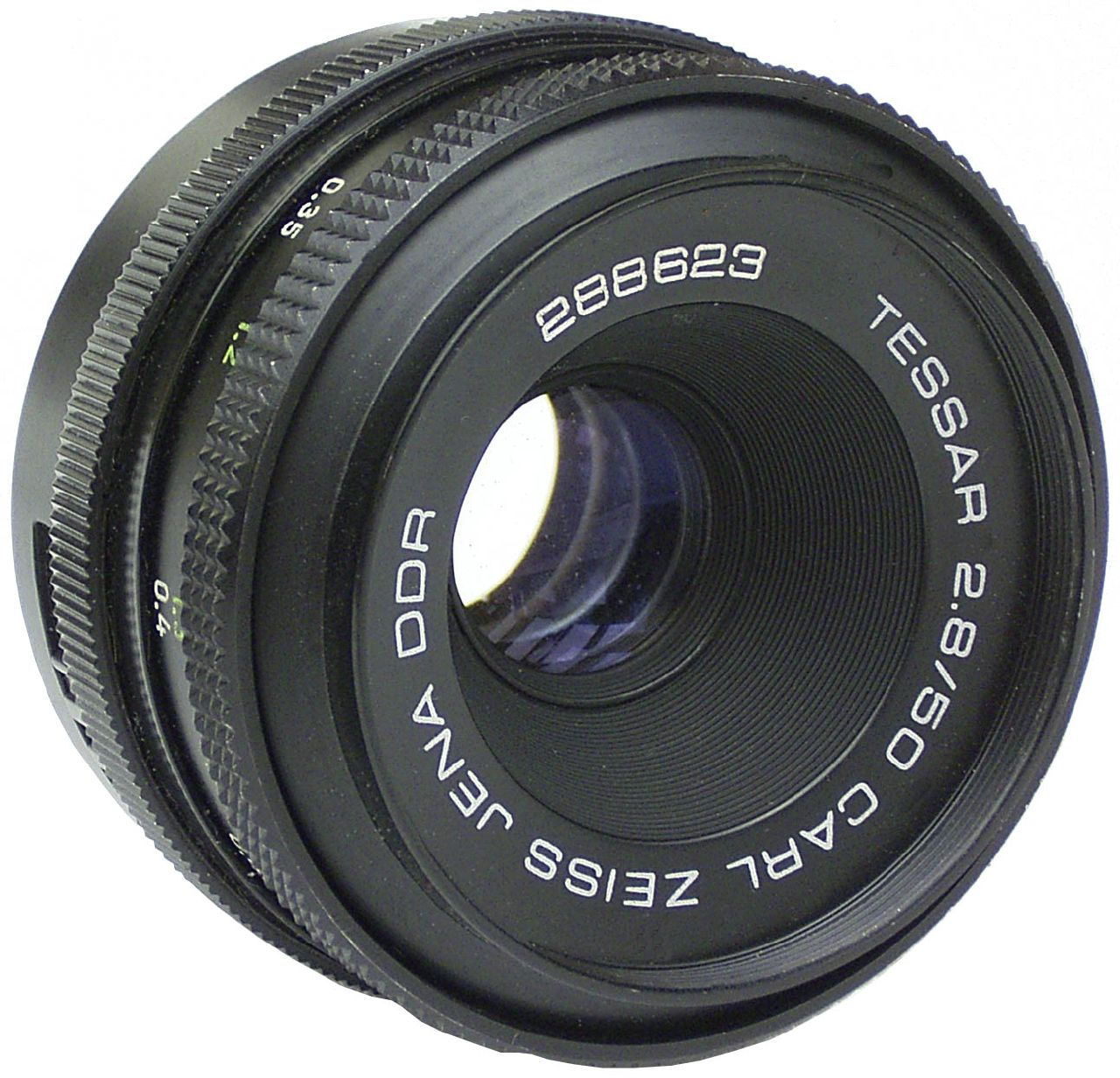 Carl Zeiss Jena Tessar 1:2,8/50mm lens